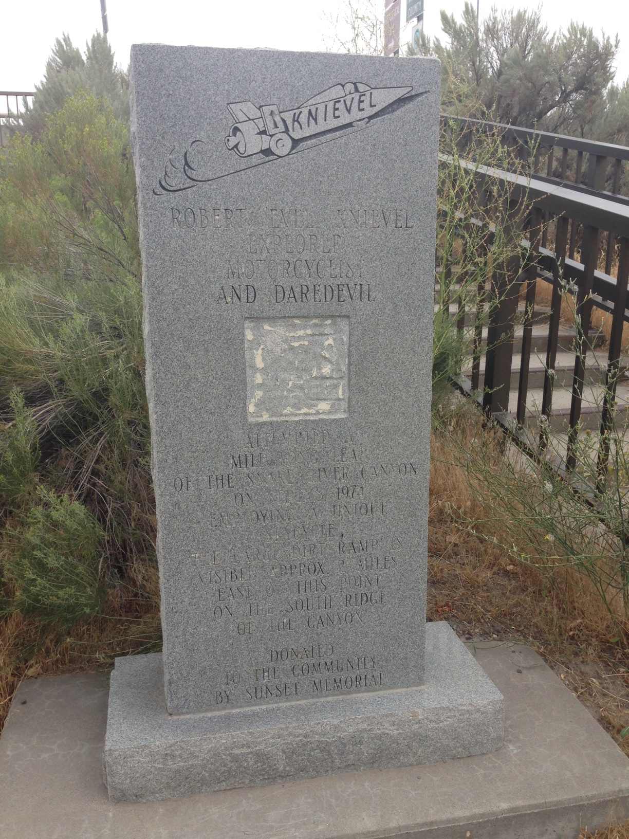 Monument dedicated to Evel Knievel located near the Perrine Bridge in Twin Falls, Idaho.